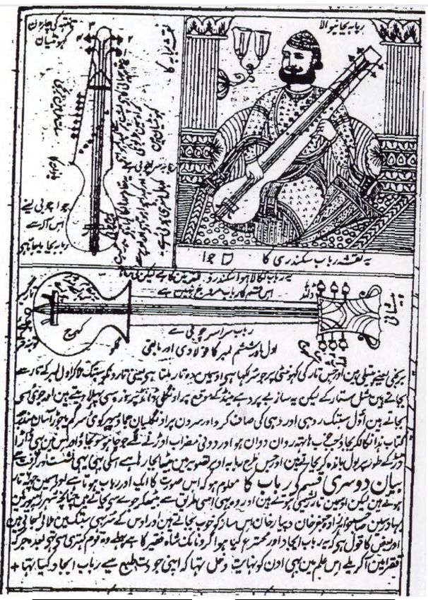 three rabab, Indian string instrument till 19th century